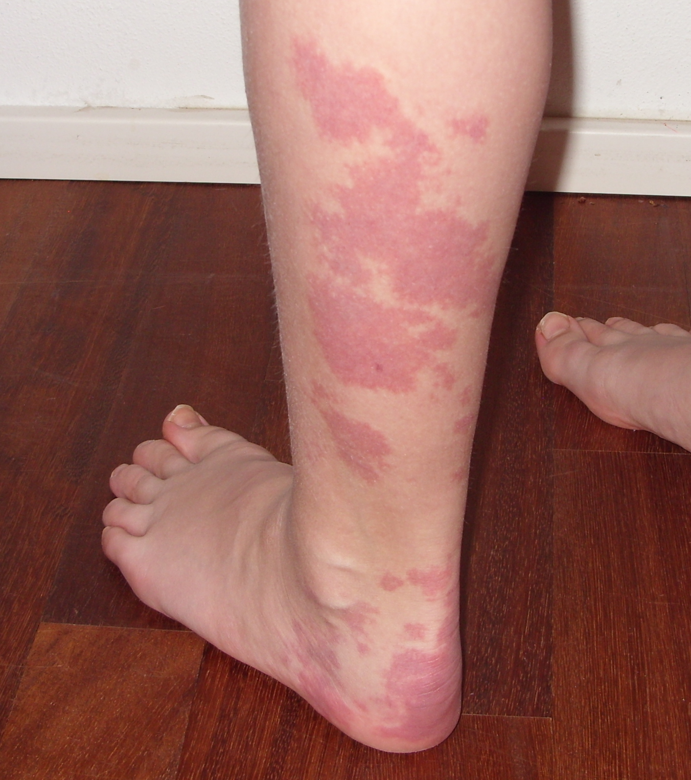 Port-wine stain on a child's leg